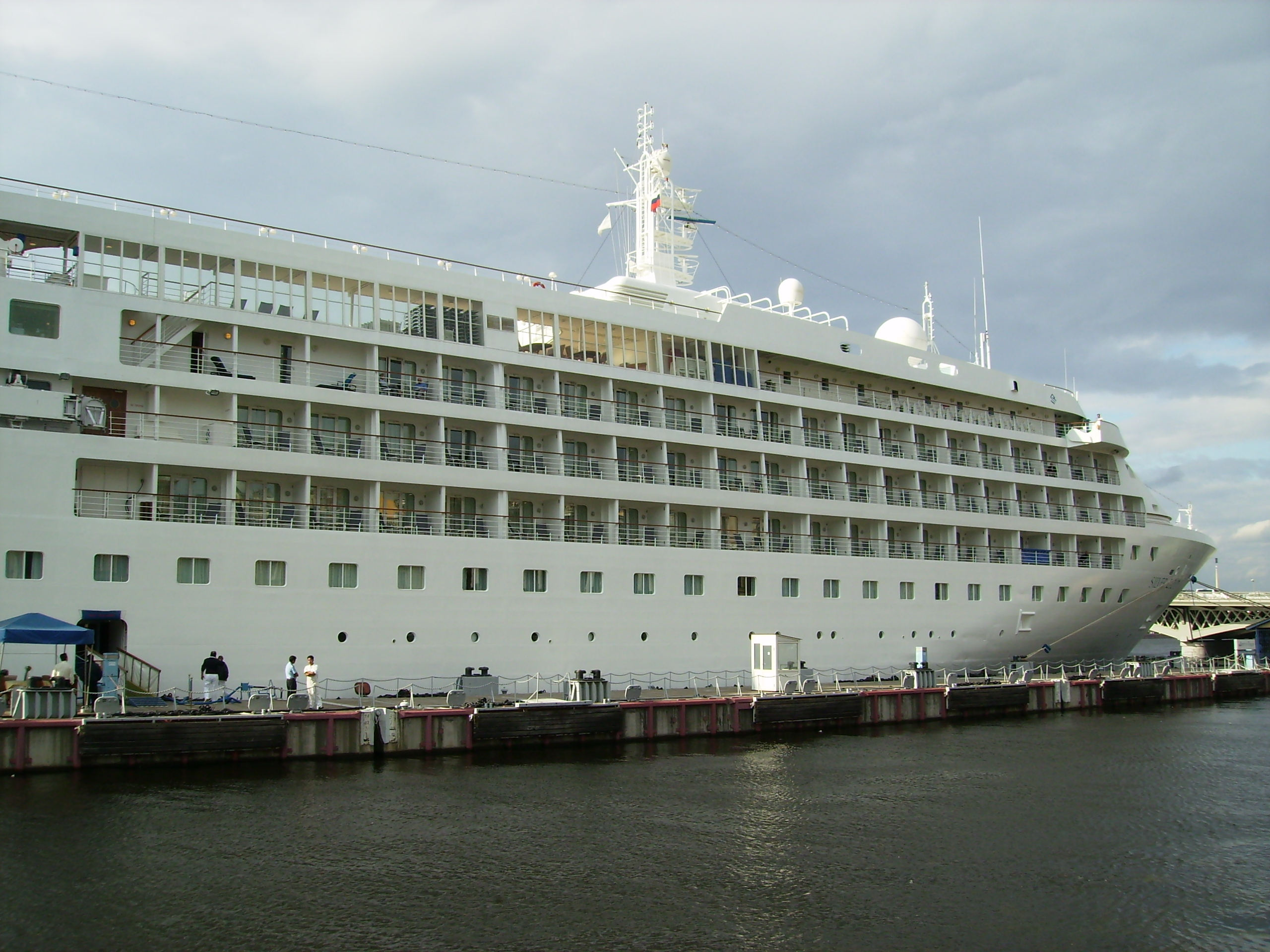 Details of M/V Silver Cloud at St. Petersburg passenger terminal English Embankment (12/Aug/2009)